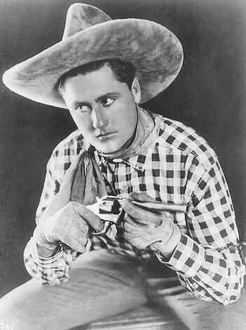 Bob Reeves (1892-1960), American Westerm movie actor about 1919.